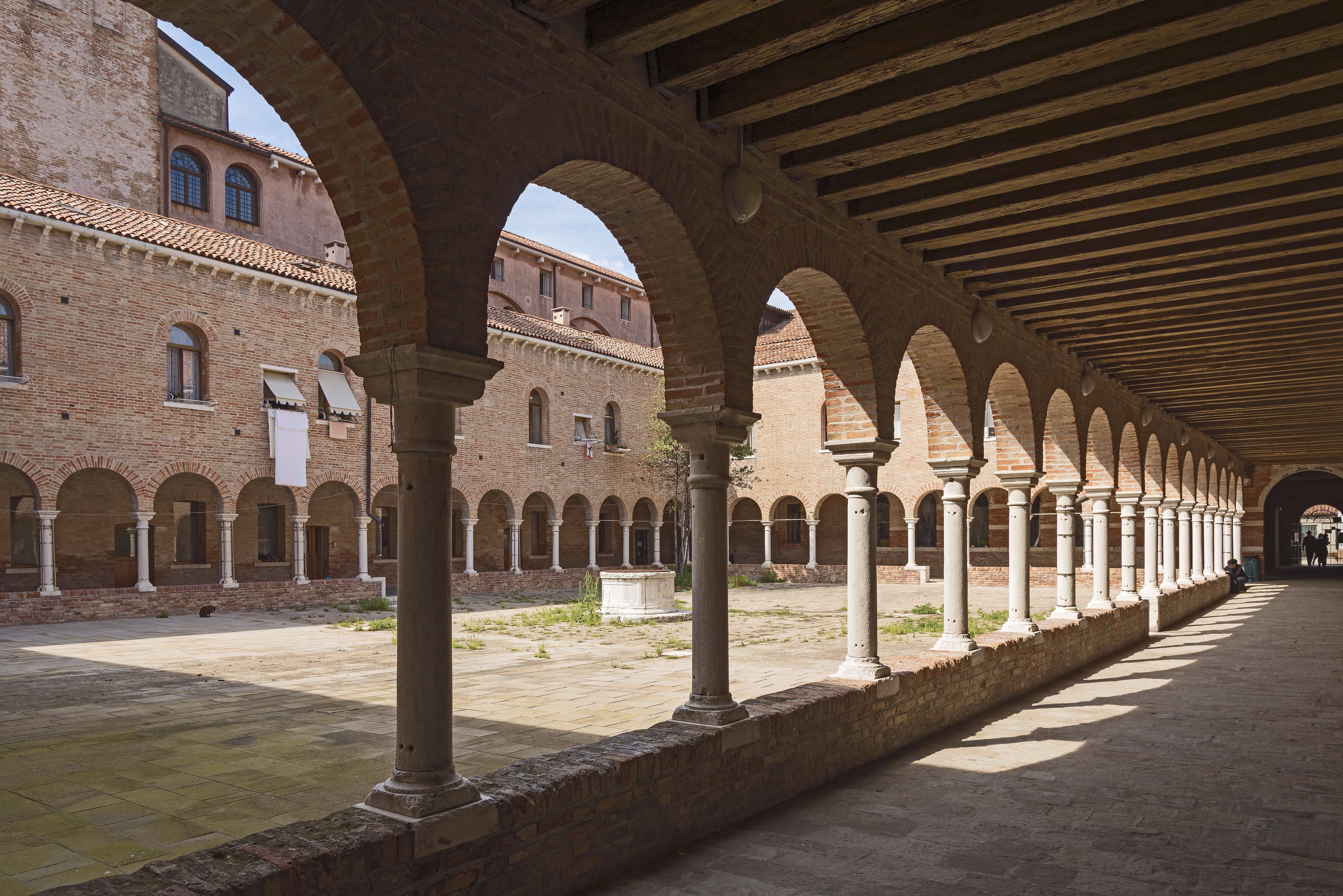 Church of Santi Cosma e Damiano Giudecca, cloister.